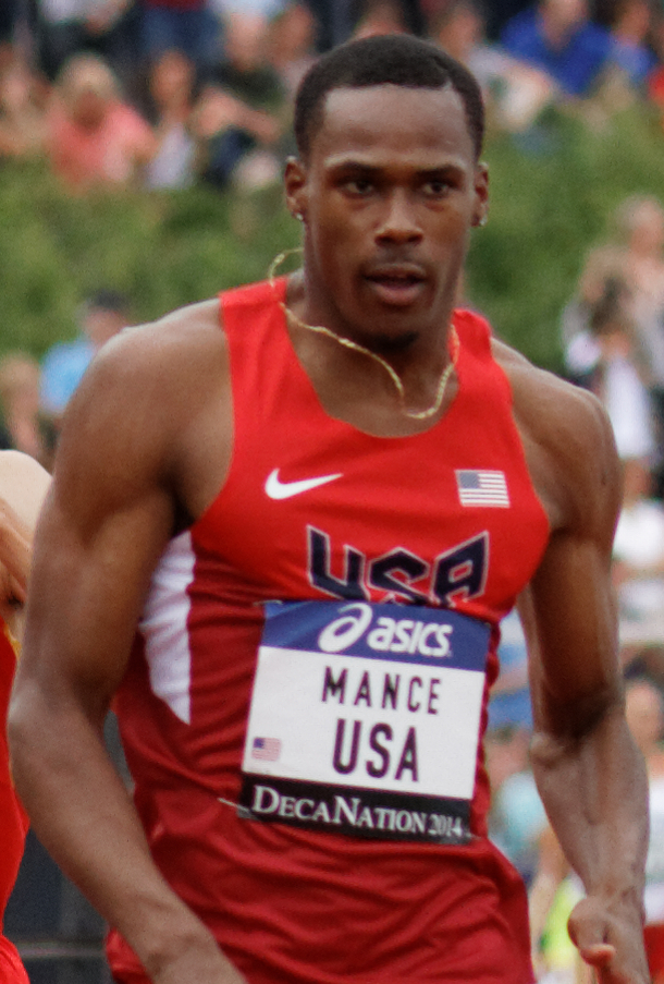 DécaNation 2014